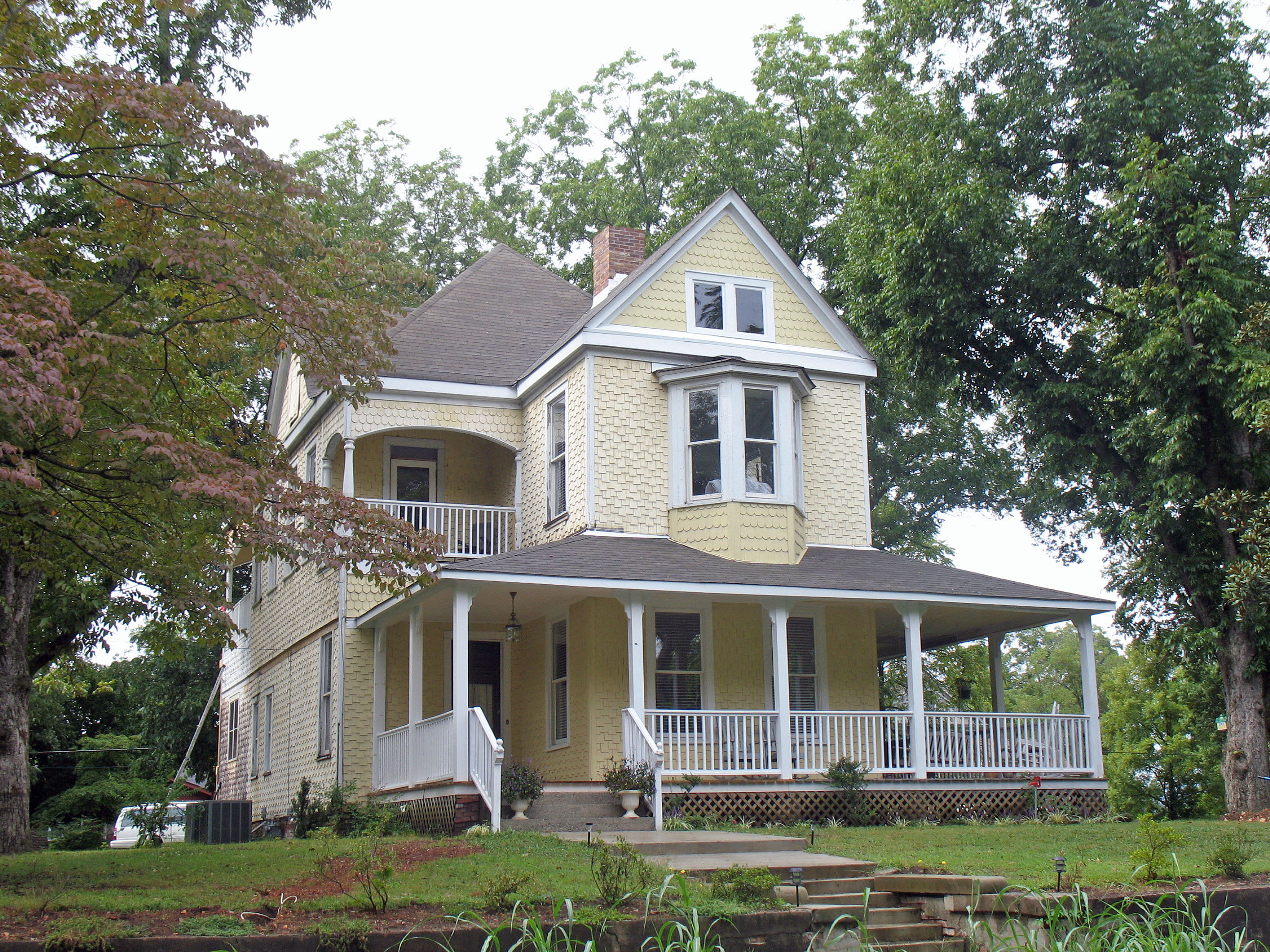 Bridgeport Historic District